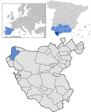 Map with Sanlúcar de Barrameda position, Andalusian municipality, Spain